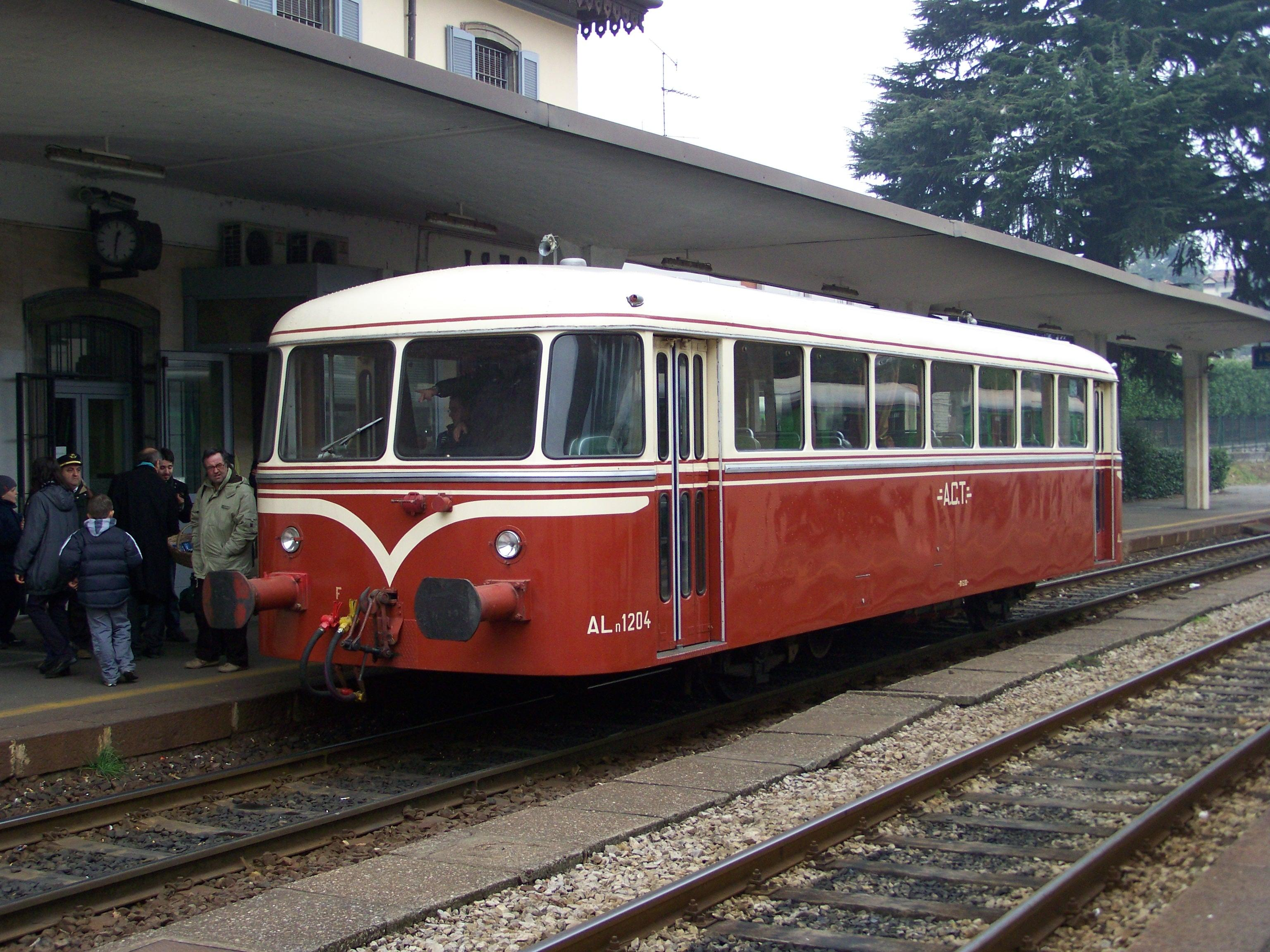 The Schienenbus ALn 1204 FTI parked on the first rail station Iseo.